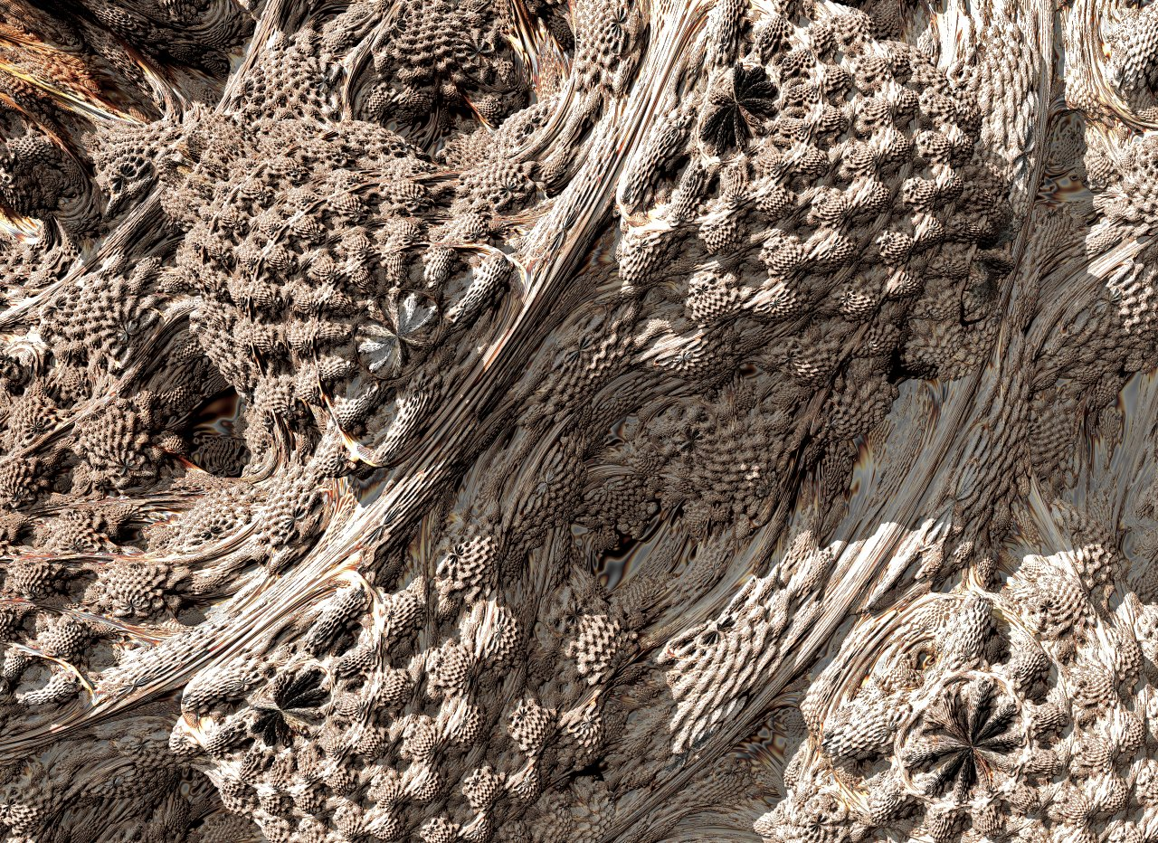 Detail of a power 9 mandelbulb made using Visions of Chaos